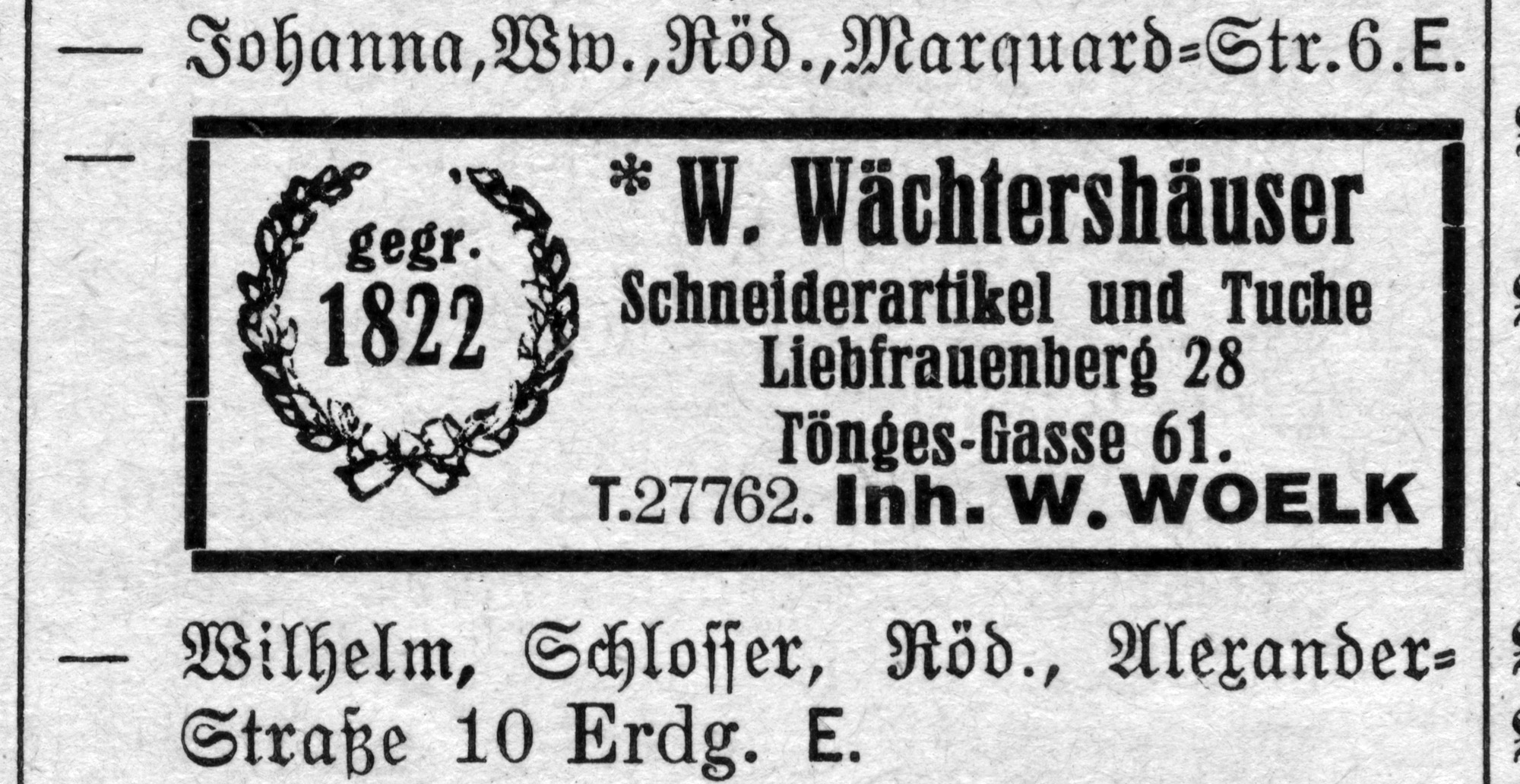 Frankfurt on the Main: Advertisement of the company W. Waechtershaeuser Gmbh in the address book of 1943, the last published before the destruction of the Altstadt (Old Town) and the retail store in the Toengesgasse (Toenges Lane)